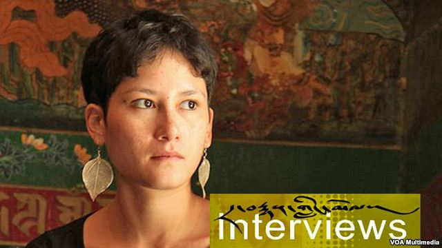 Sonam Yeshi is one of the few women artists and designers in the Tibetan world. After graduating from the Parsons New School for Design in New York, she worked for Norbulingka institute in Dharamsala where she designed the interior space of Chonor House and Norling Hotel in Dharamsala. She is the chief designer for Norbulingka fashion and household goods which are found in fine goods shops around. Sonam Yeshi has a registered interior design company in Hong Kong and also works on her own art. She talks about contemporary Tibetan art and the intersection of her artistic and business experience.